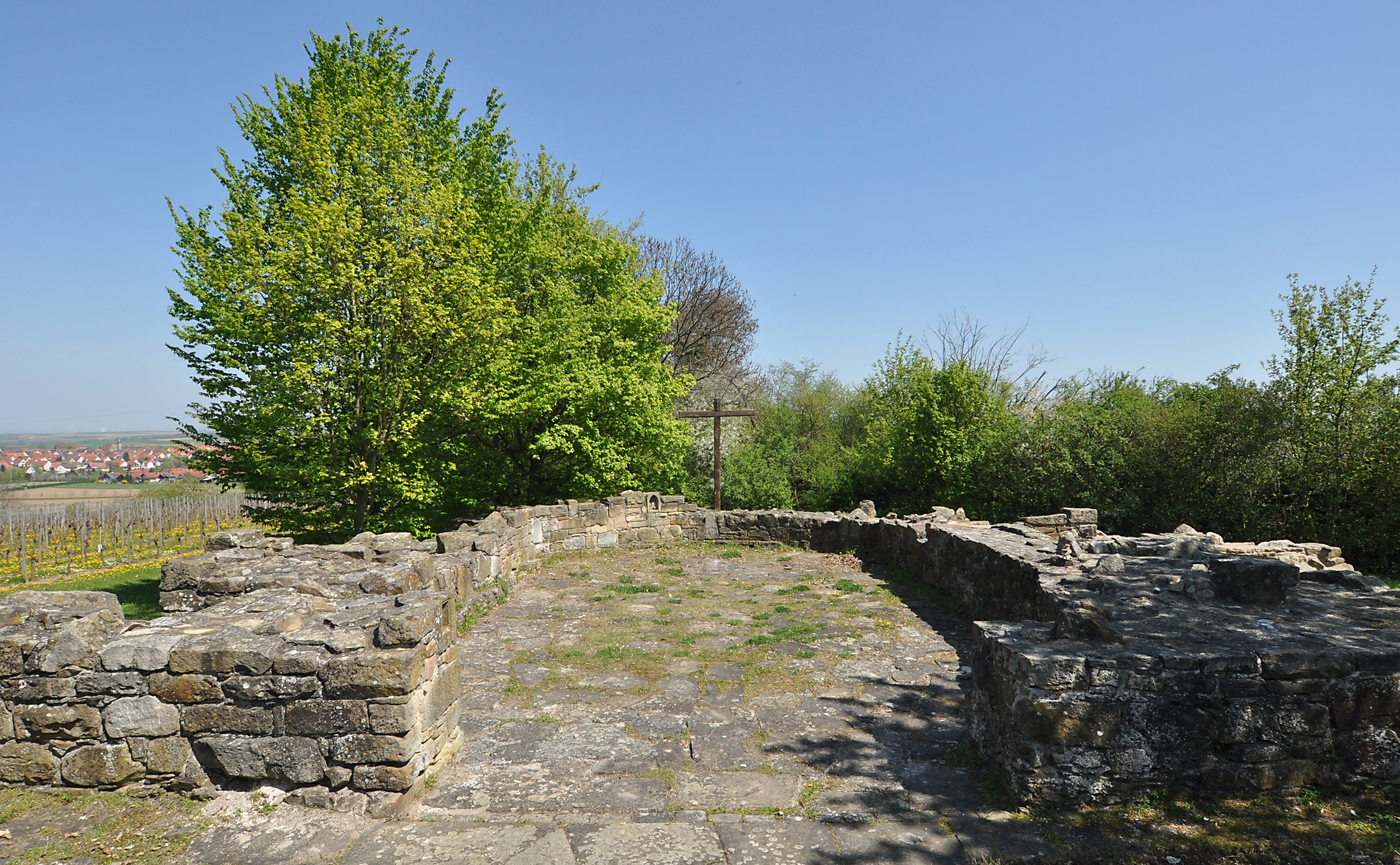 Ruin of the Klösterle (little monastery) southwest Bönnigheim